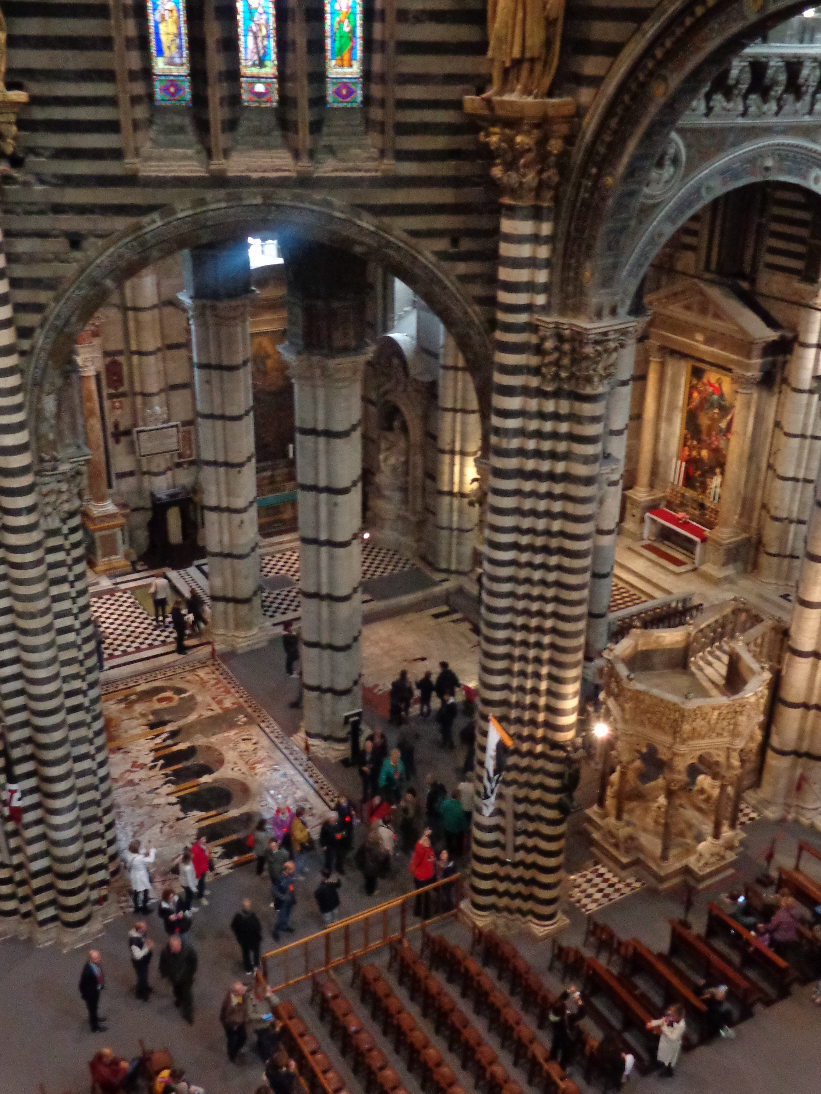 Interior of the cathedral of Siena